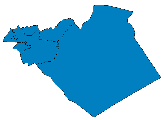 Blank map of Homs's districts.